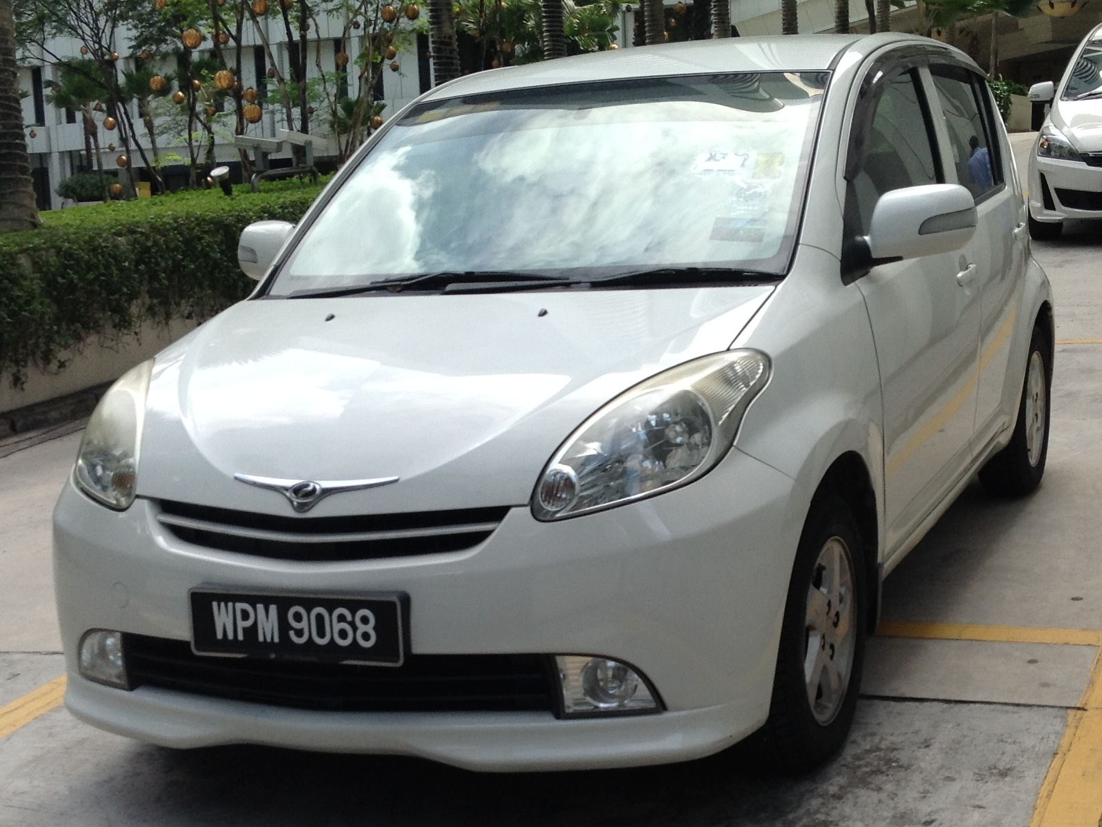 Circa 2006 Perodua MyVi pictured in Shangri-La KL